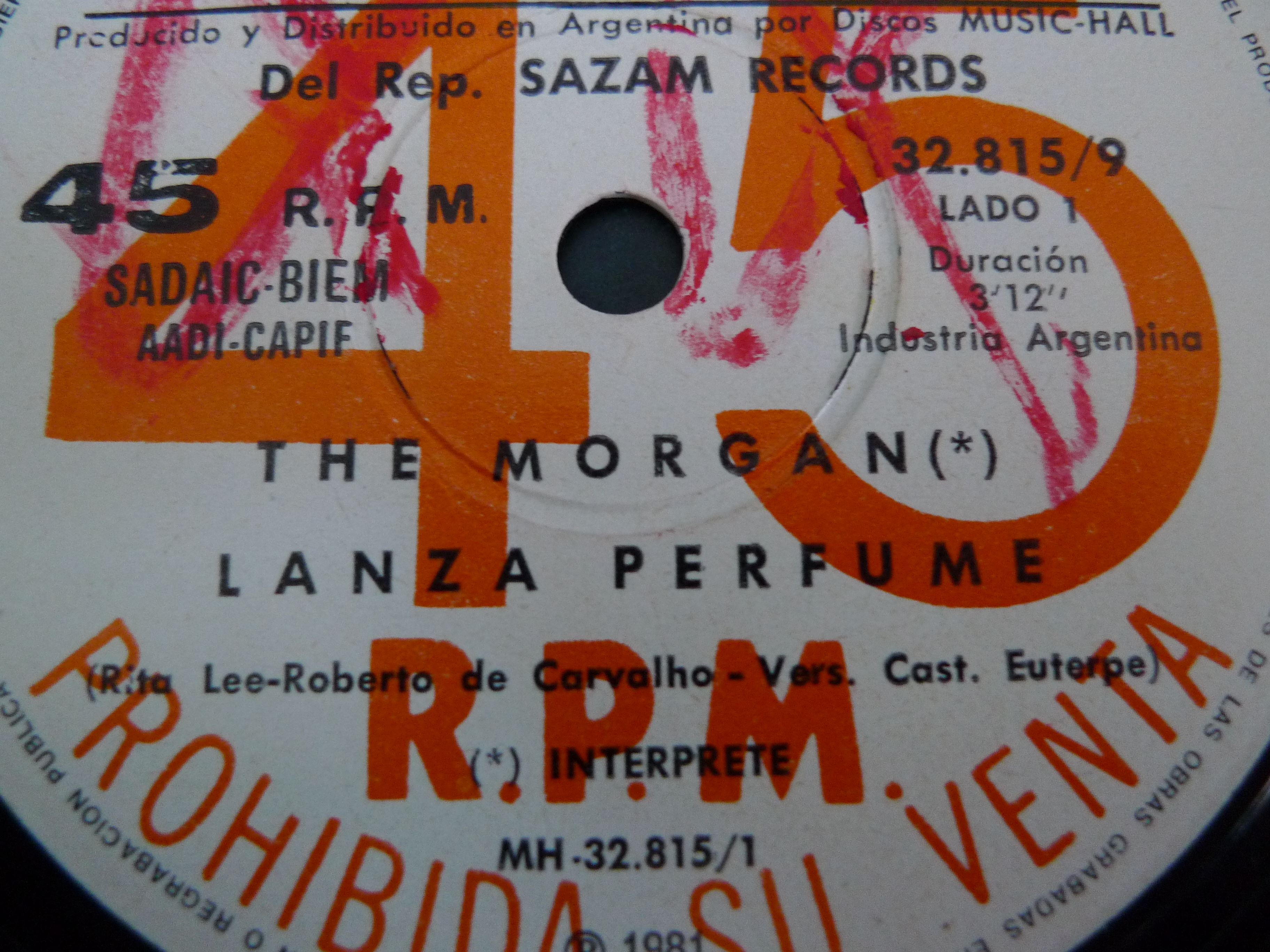 Demo del disco simple del grupo "The Morgan" Lado A